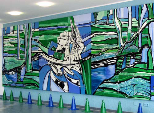 Primary School Burgweinting Regensburg, Ivana Koubek, 2014